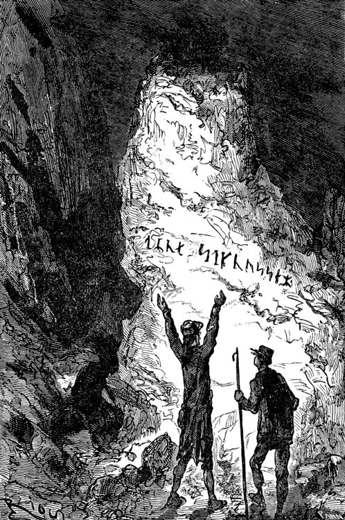 An ilustration from the novel "Journey to the Center of the Earth" by Jules Verne painted by Édouard Riou.